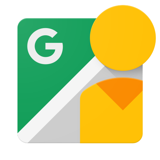 Logo of Google Streetview